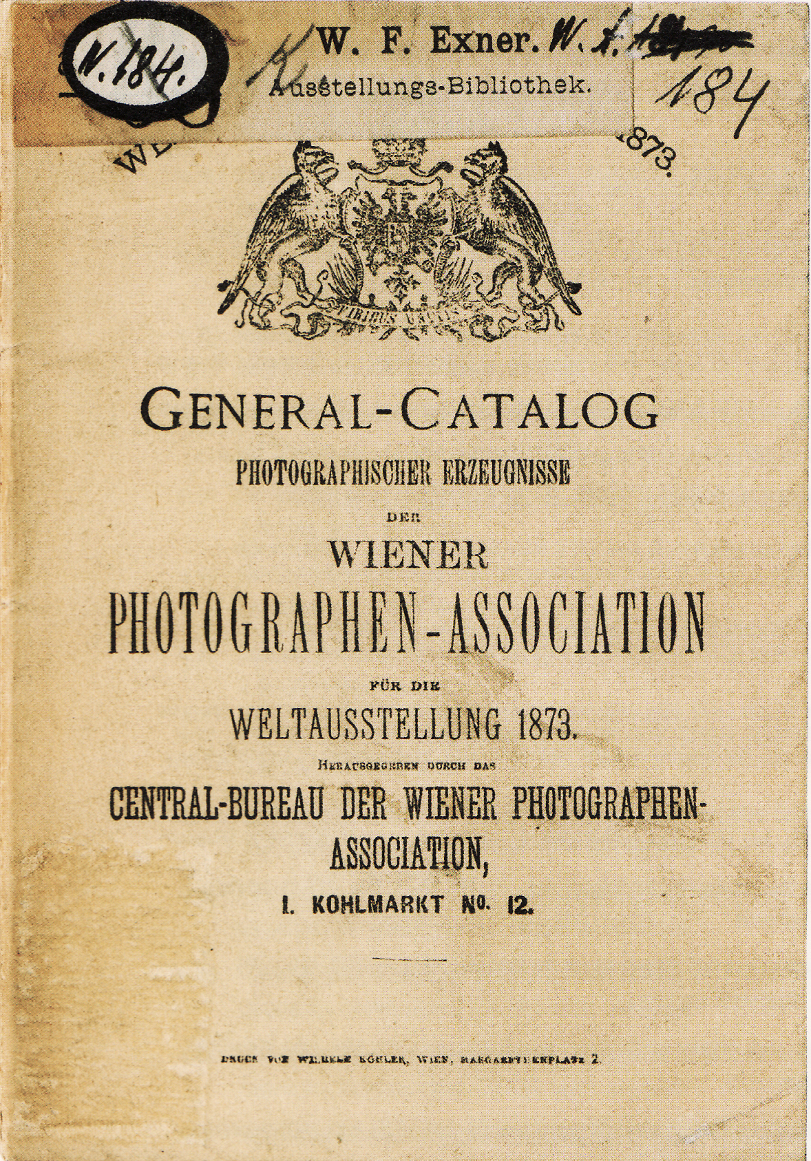 Catalog of the Vienna Photograph Association, 1874